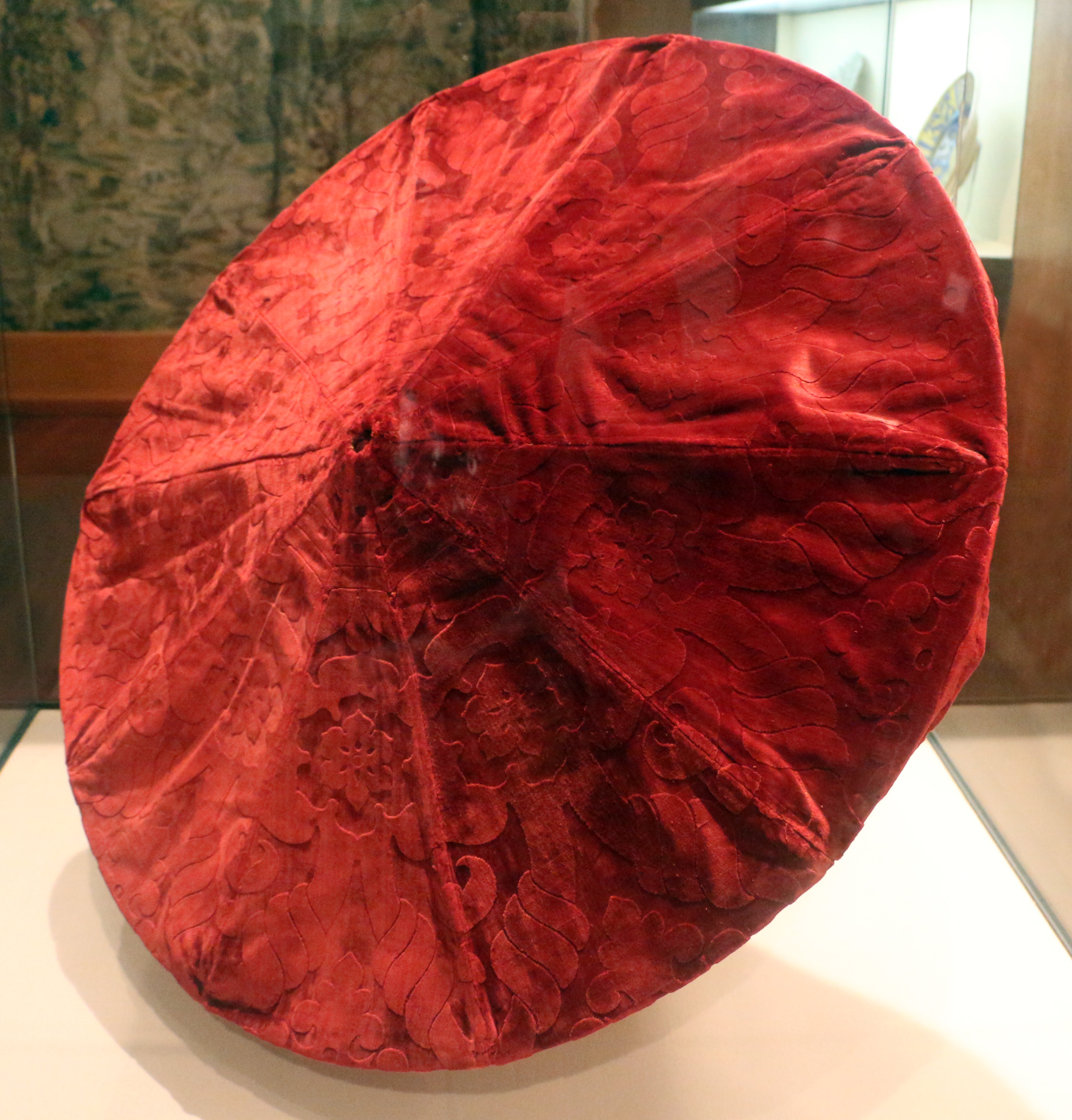 Collections of the Calouste Gulbenkian Museum